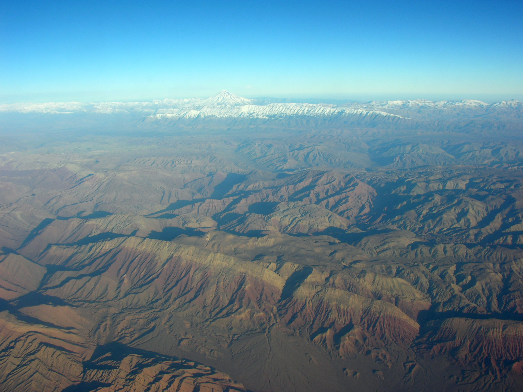 Aerial View of Damavand